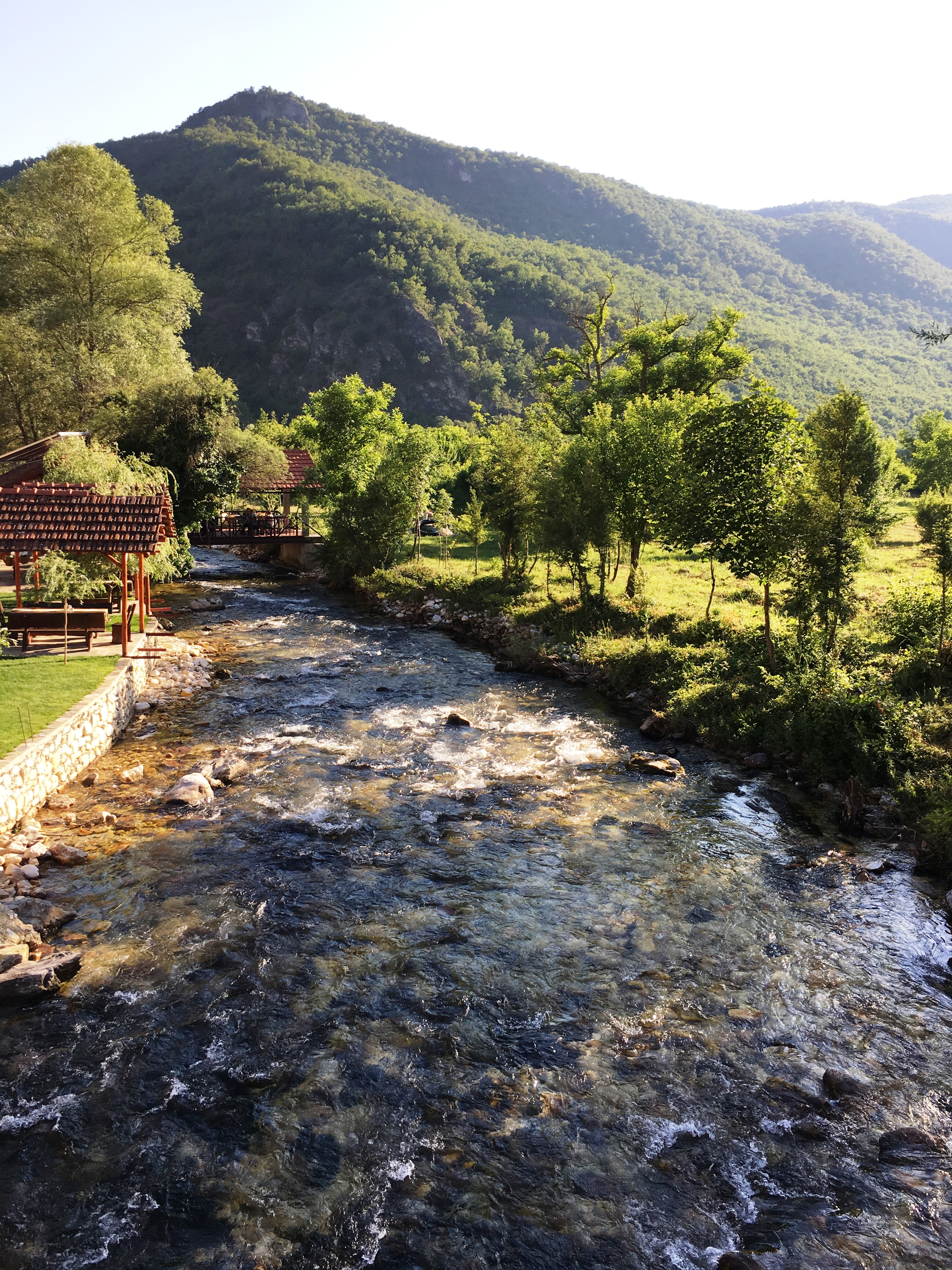 The river Belica in the proximity of its mouth in the river Treska